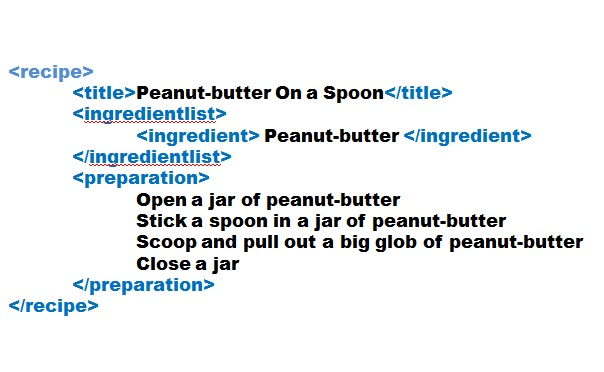 sample of Markup Language